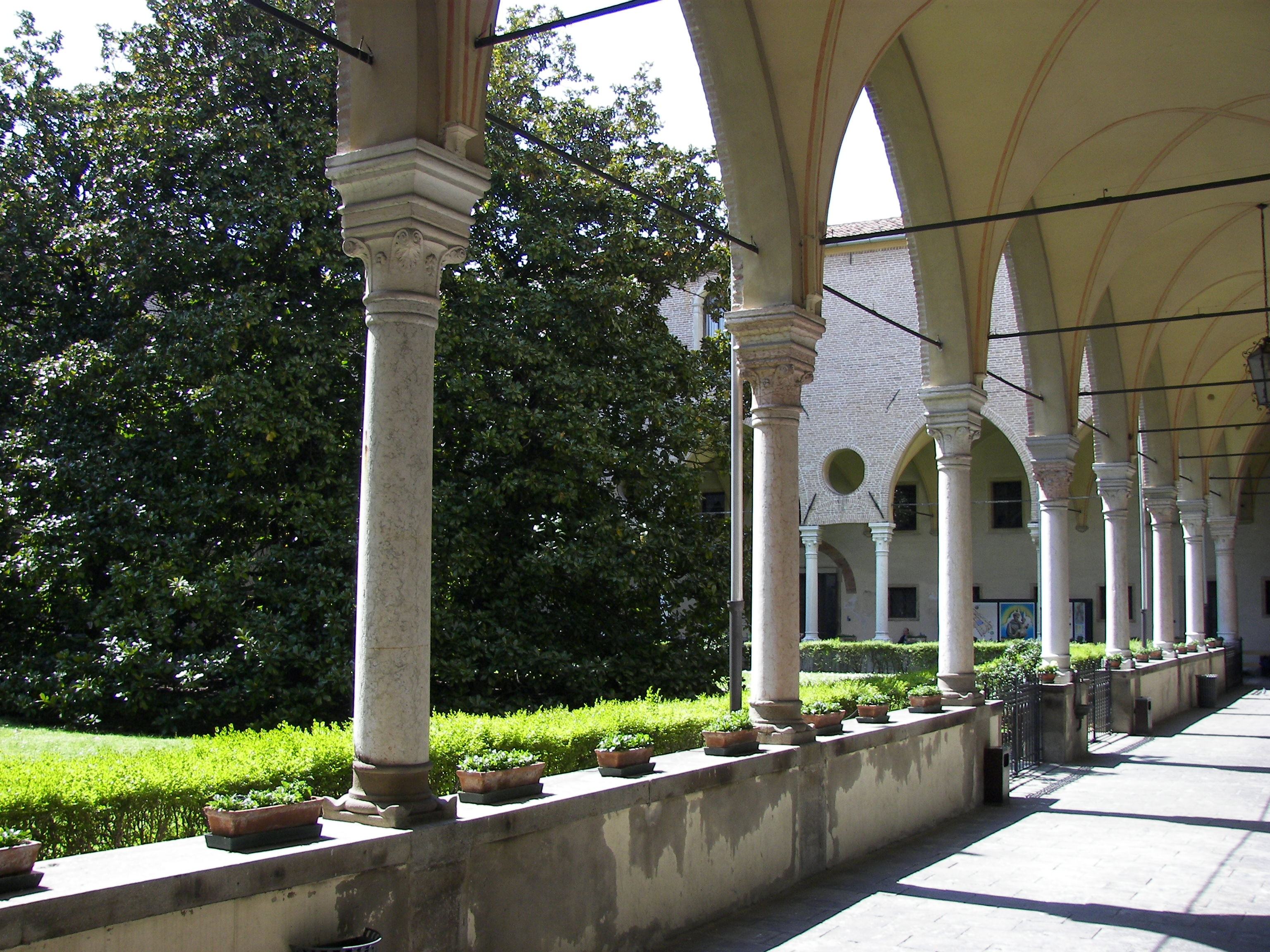 Courtyard at Basilica of Saint Anthony of Padua in Padova.